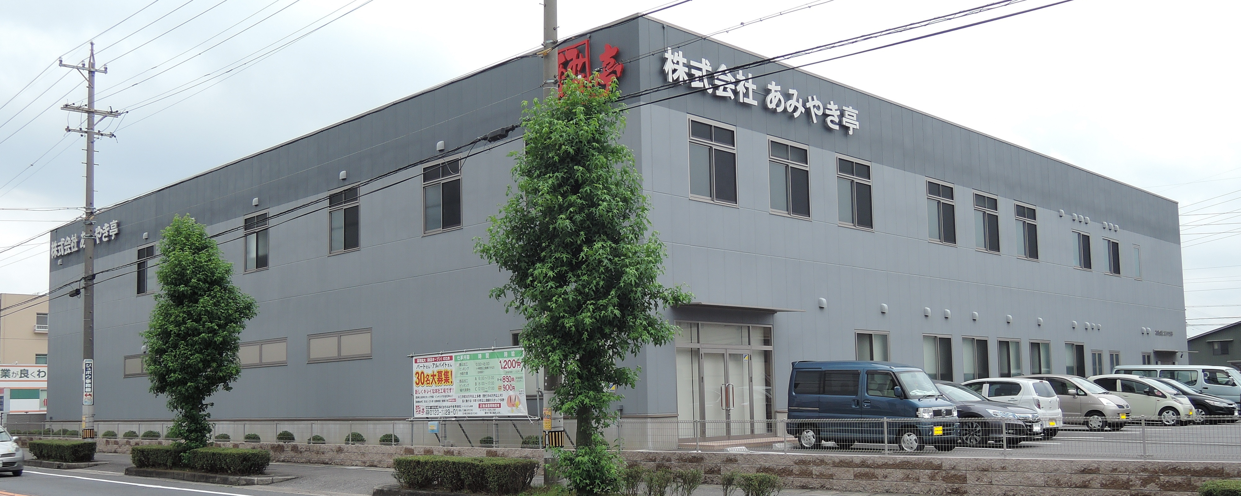 Headquarters of Amiyaki Tei Co., Ltd.,Aichi prefecture,Japan